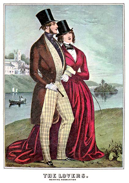 "The Lovers: Morning Recreation", print by Sarony and Major (New York). The woman is wearing a menswear-influenced riding habit(?) which shows the 1850s idea of outdoorsy recreational clothing for women... The man is wearing the equivalent, fashionable, male riding attire. Stock, or stock-tie; a wide black or white tie